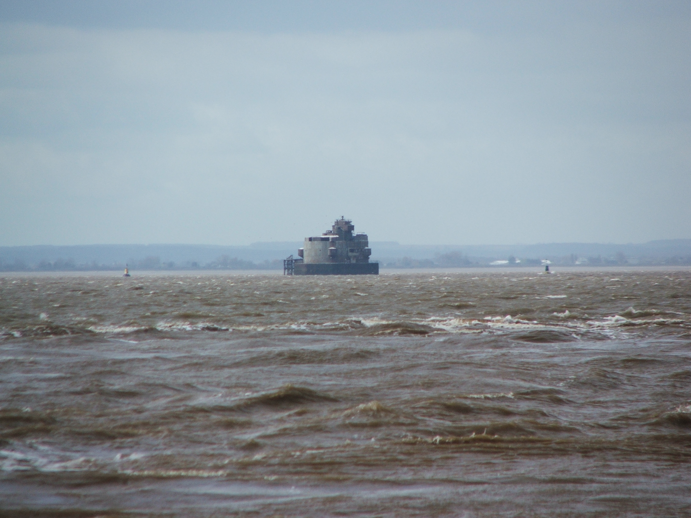 Picture of Bull Sand Fort in the River Humber, taken from Spurn Point, East Riding of Yorkshire, England.Taken by me, Neoskywalker, April 17th 2006